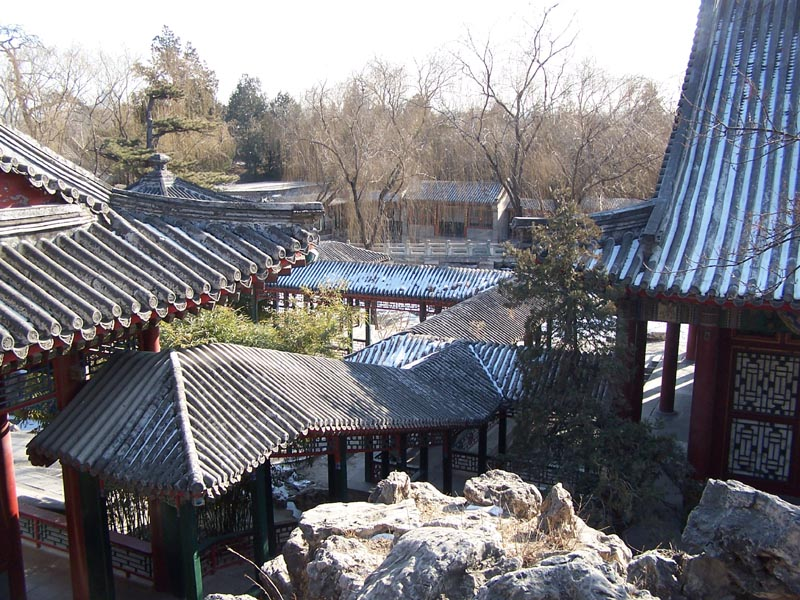 Summer Palace at Beijing, China